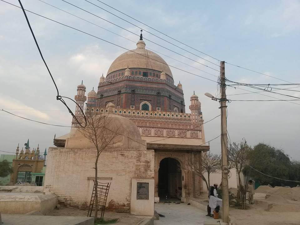 Shrine of Lal Esan This is a photo of a monument in Pakistan identified as the PB-P-150